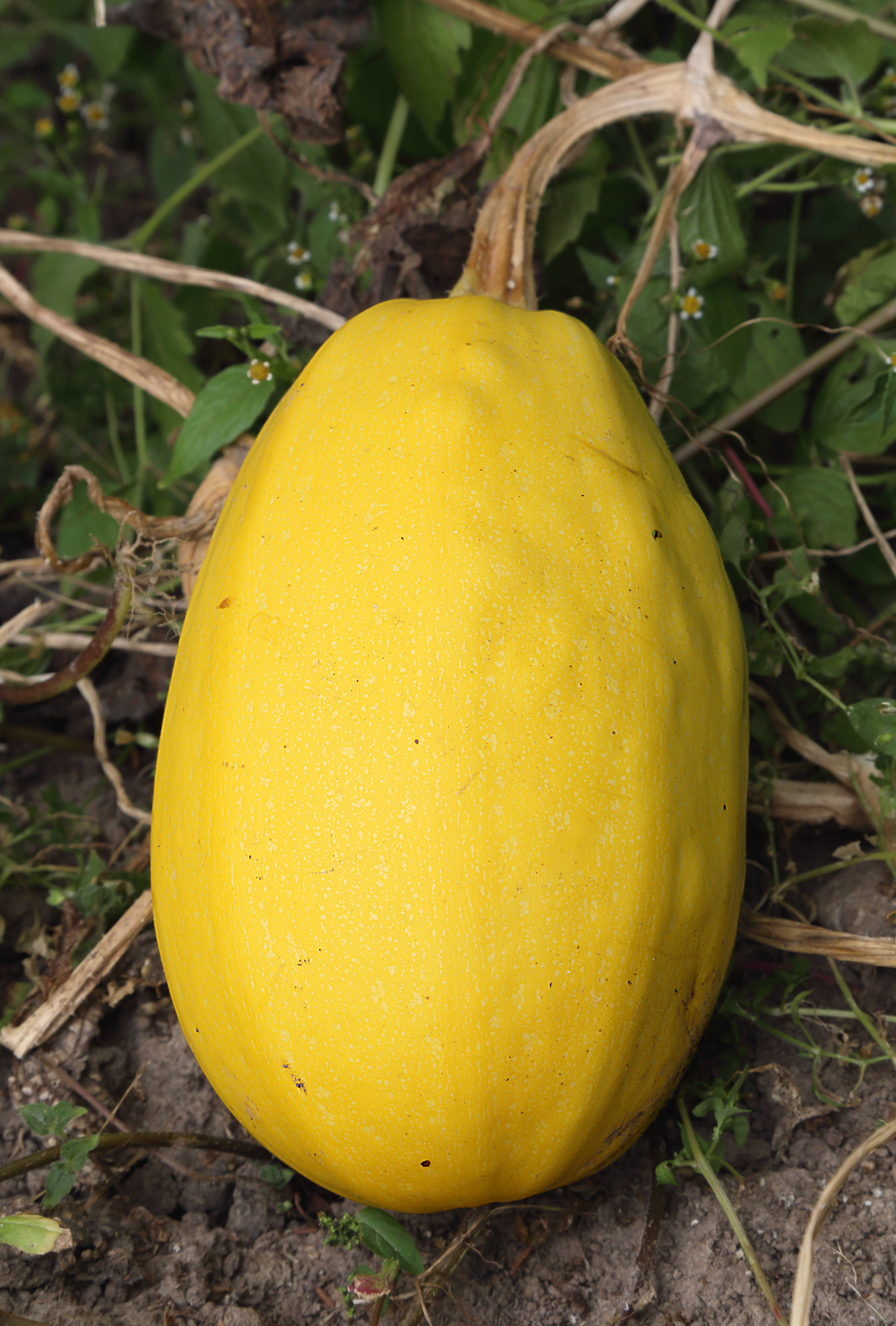 Spaghetti squash, picture taken in Belgium.